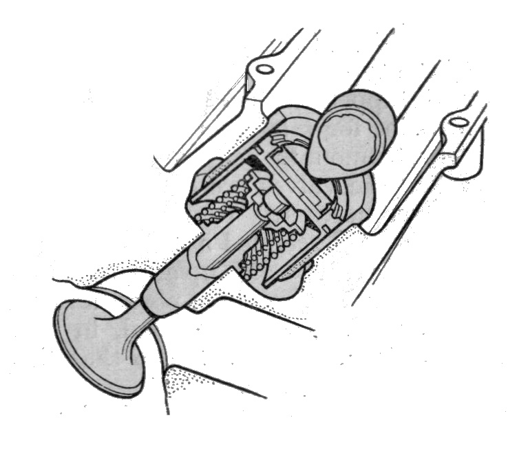 Overhead valve with bucket tappet (Autocar Handbook, 13th ed, 1935).jpg